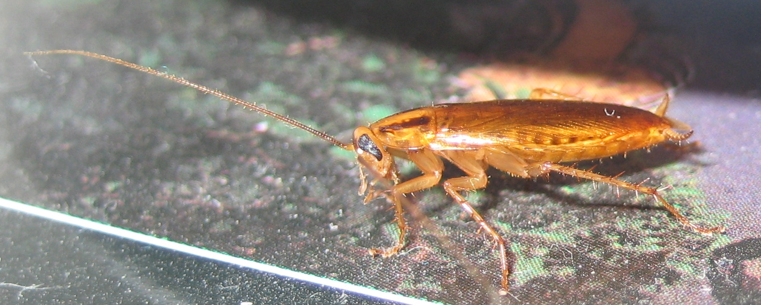 Cockroach photo from the side